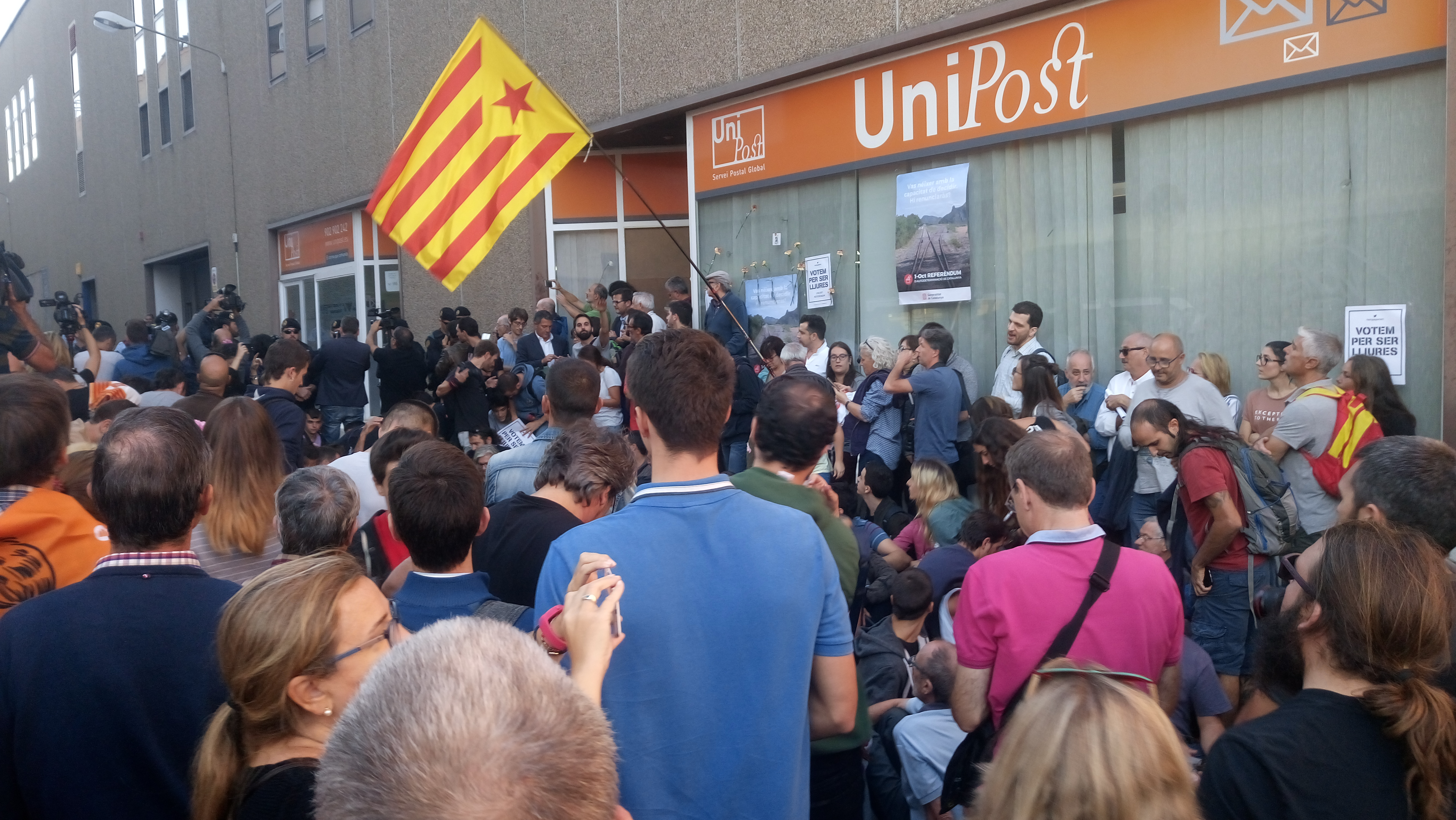 Spanish Civil Guard action in Terrassa